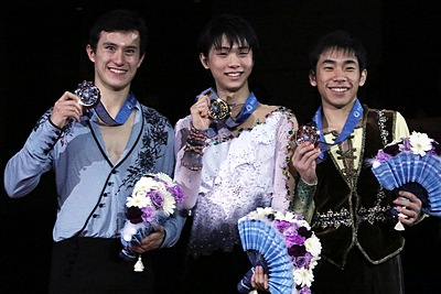 The men's podium at the 2013-2014 Grand Prix of Figure Skating Final. From left: Patrick Chan (2nd), Yuzuru Hanyu (1st), Nobunari Oda (3rd).